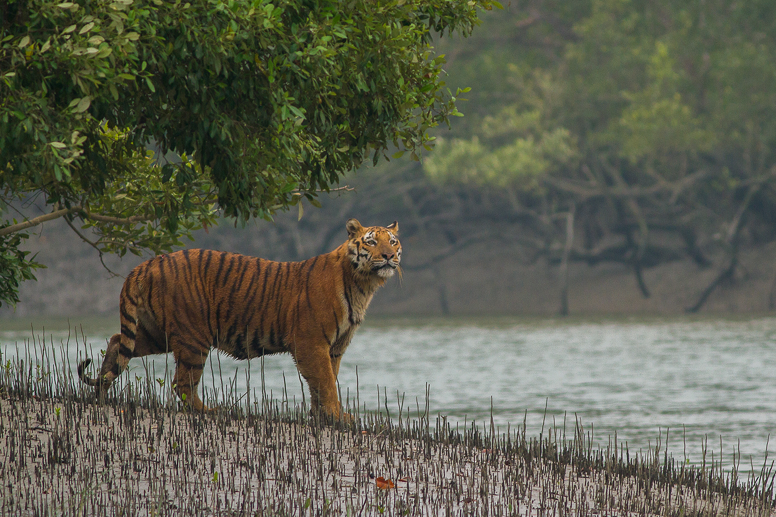 A Bengal Tiger checks out the conditions before getting into the canal at Sundarban Tiger Reserve, West Bengal, India.